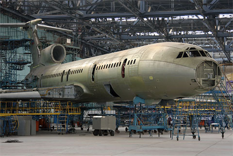 Tu-154M for the Russian Air Force is under construction on the Aviakor plant in Samara. Bigger size see there